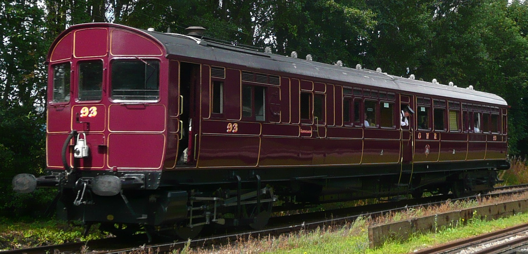 A rebuilt GWR Steam Rail motor at the Didcot Railway Centre